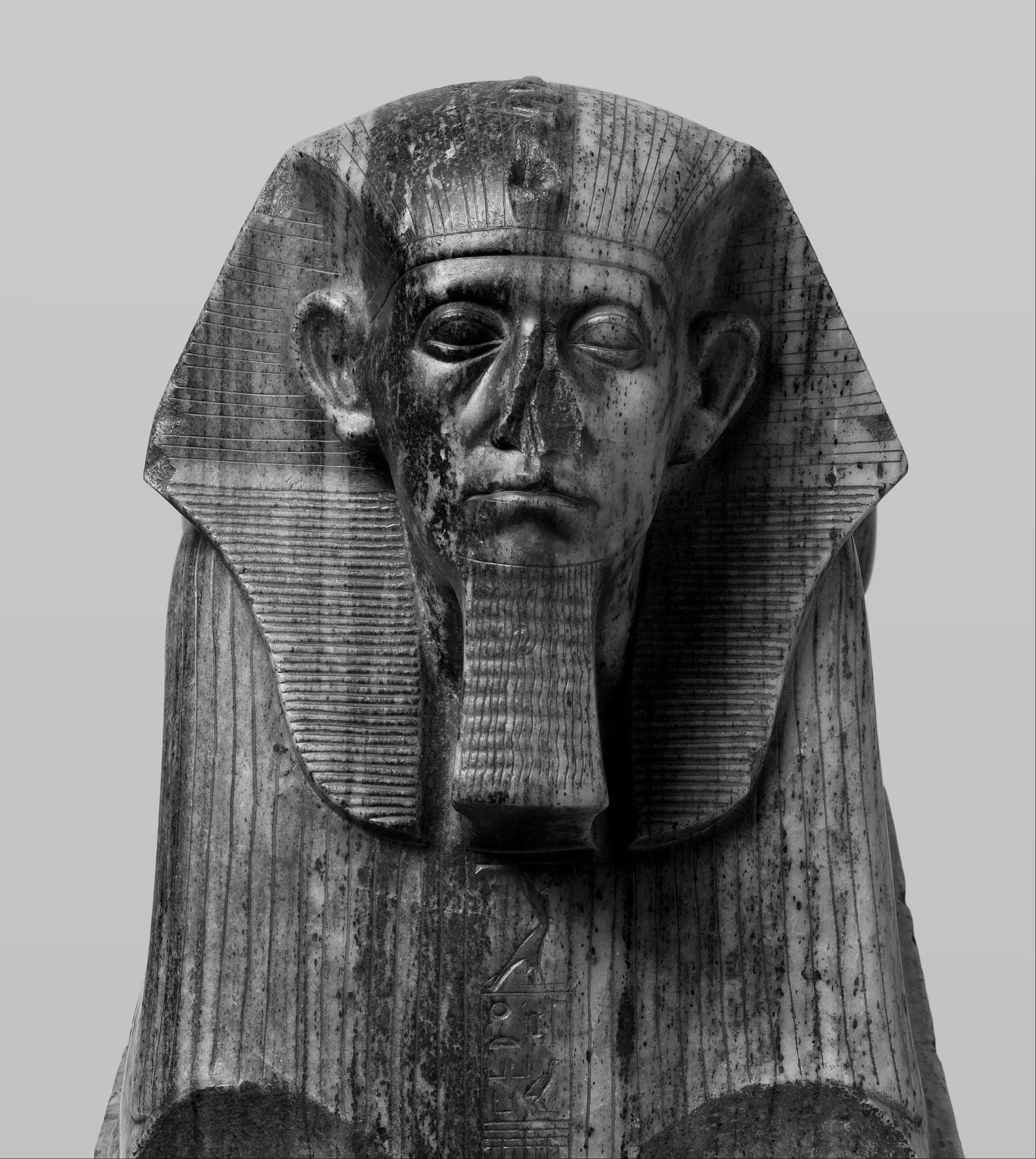 Sphinx, Senwosret III